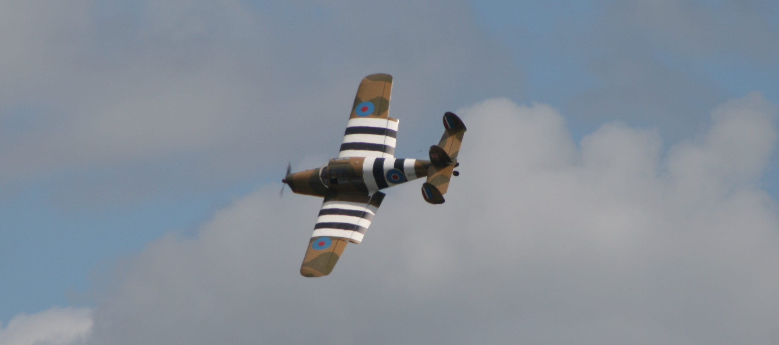 Miles M38 Messenger, (Reg ZK-CMM, S/No 6372) Ardmore Airport de havilland Mosquito Launch Airshow, 2012